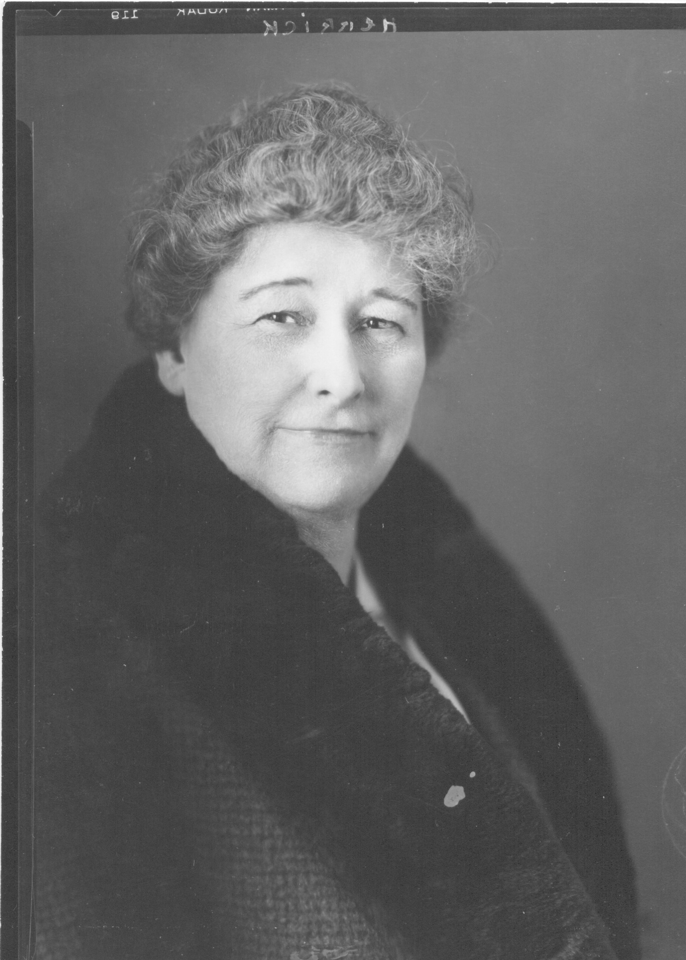 Title: Una B. Herrick Creator: MSU Office of Information Date: 1910-1934 Description: Formal portrait of Una B. Herrick, Dean of Women, professor of Physical Education for Women, Director of Physical Education for Women & Vocational Guidance Advisor. Notes: Physical Description: Photo print - Black and White Subjects: Herrick, Una B. Montana State College-Faculty Keywords: portraits Photograph ID: parc-001733 On Wed, Sep 13, 2017 at 12:15 AM, Scott, Kim wrote: Dear Ms. Rolle: You may use the photograph provided you cite its location. Thank you for asking, Kim Kim Allen Scott Professor/University Archivist Merrill G. Burlingame Special Collections Montana State University Library P.O.Box 173320 Bozeman, MT 59717-3320 (406) 994-5297